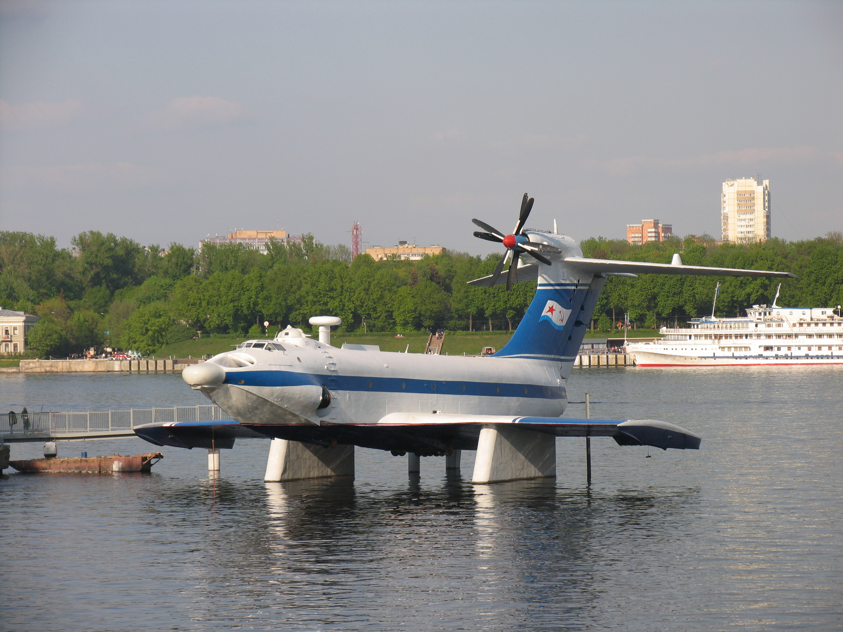 A-90 Orlyonok at the Museum of the Navy, Moscow